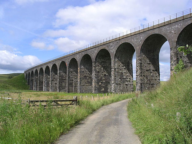 Shankend Viaduct Viewed from a minor road to Shankend Farm, this 15-arched masonry viaduct formed part of the Waverley Railway route from Edinburgh to Carlisle. The line was opened in 1862 and closed in 1969, but the structure is still maintained by BRB (Residual) Limited. About 80% of the viaduct is in NT5205 with the remaining 20% in NT5206.